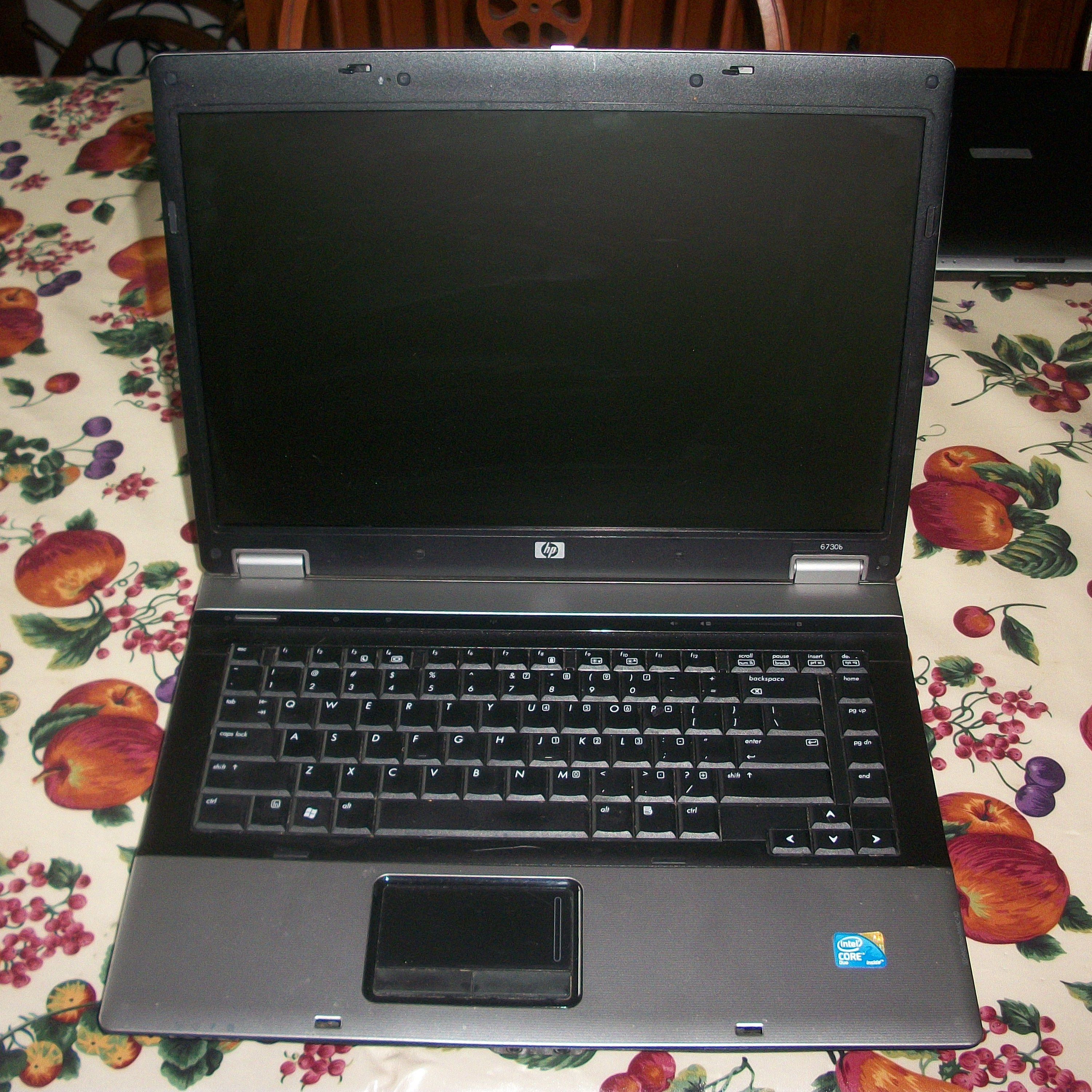 A Hp Compaq 6730b notebook computer.